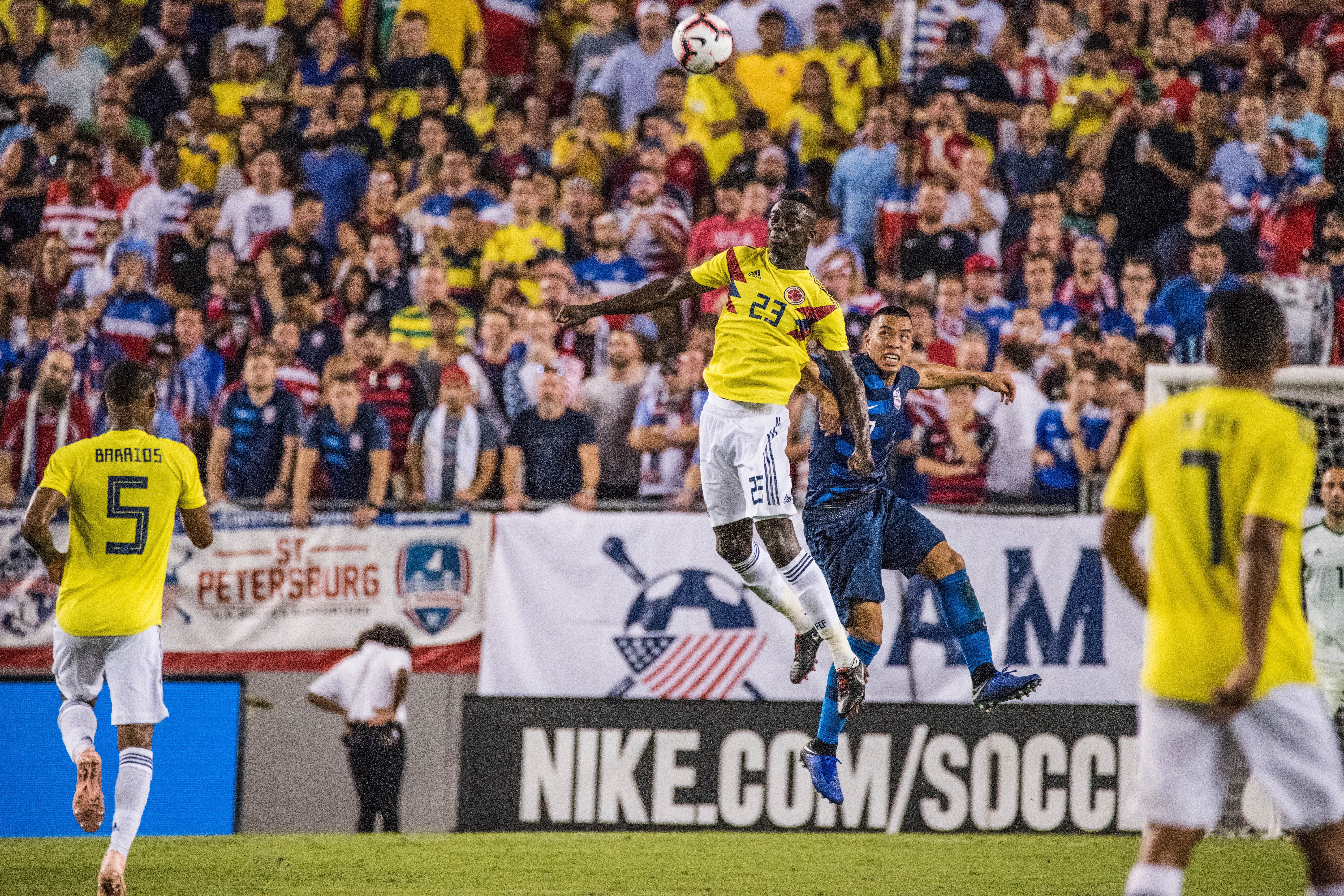 Matt Garrity Location : Raymond James Stadium, Tampa FL My contact : Instagram : djdouken Website